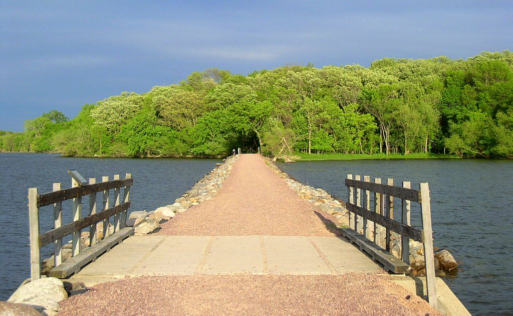 Causeway built by the Works Progress Administration on Lake Shetek, Lake Shetek State Park, Minnesota, USA. View is looking toward mainland from causeway to Loon Island.